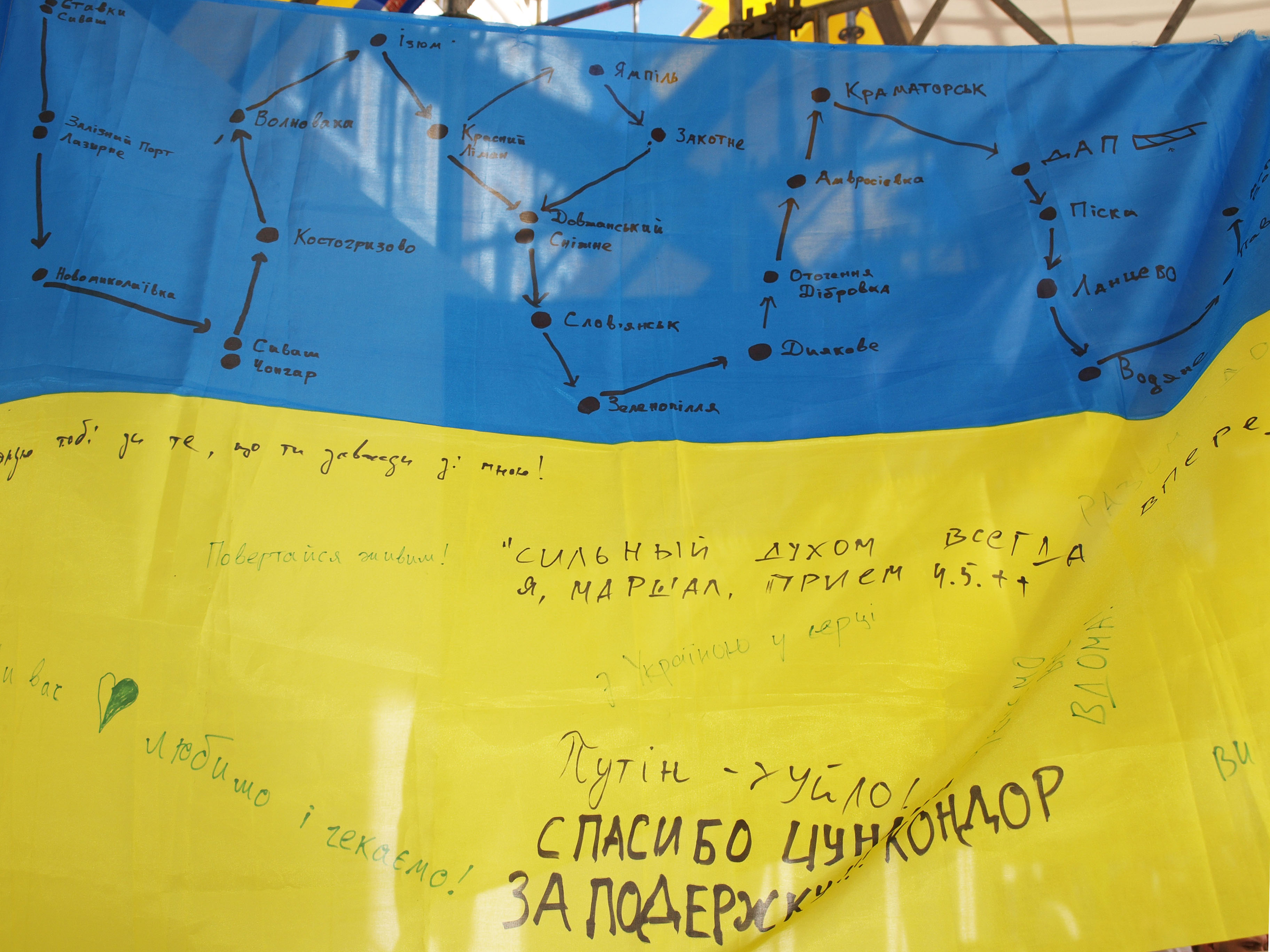 Ukrainian flag of the 79th Airmobile Brigade mortar battery In November-December 2014, the "Tsunami" battery secured position in the village of Pisky not far from Donetsk. Commanders who defended the Donetsk airport - the renowned "cyborgs" - signed the flag in a newly fashioned tradition as a sign of gratitude to the mortar operators for their fire support. This flag accompanied troops throughout their long combat path from Mykolaiv to "Dovzhansky" checkpoint at the Ukraine-Russia border, and later from Krasnyi Lyman to Mariupol. Exhibition Ukrainian flags-relics at St. Sophia Square in Kyiv (23-25 August 2015)